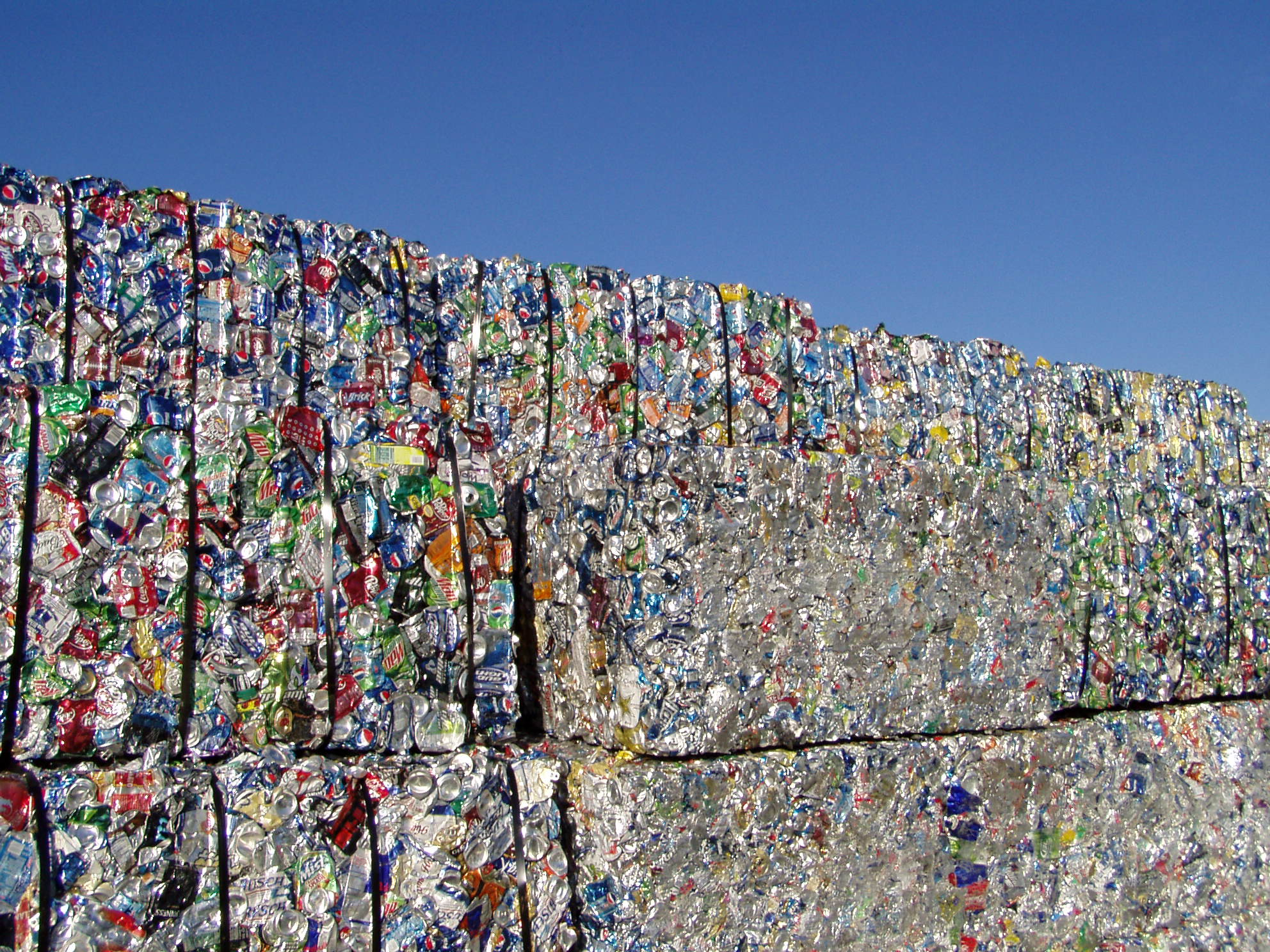 Cuboids of crushed cans recycled by Oregon State University.